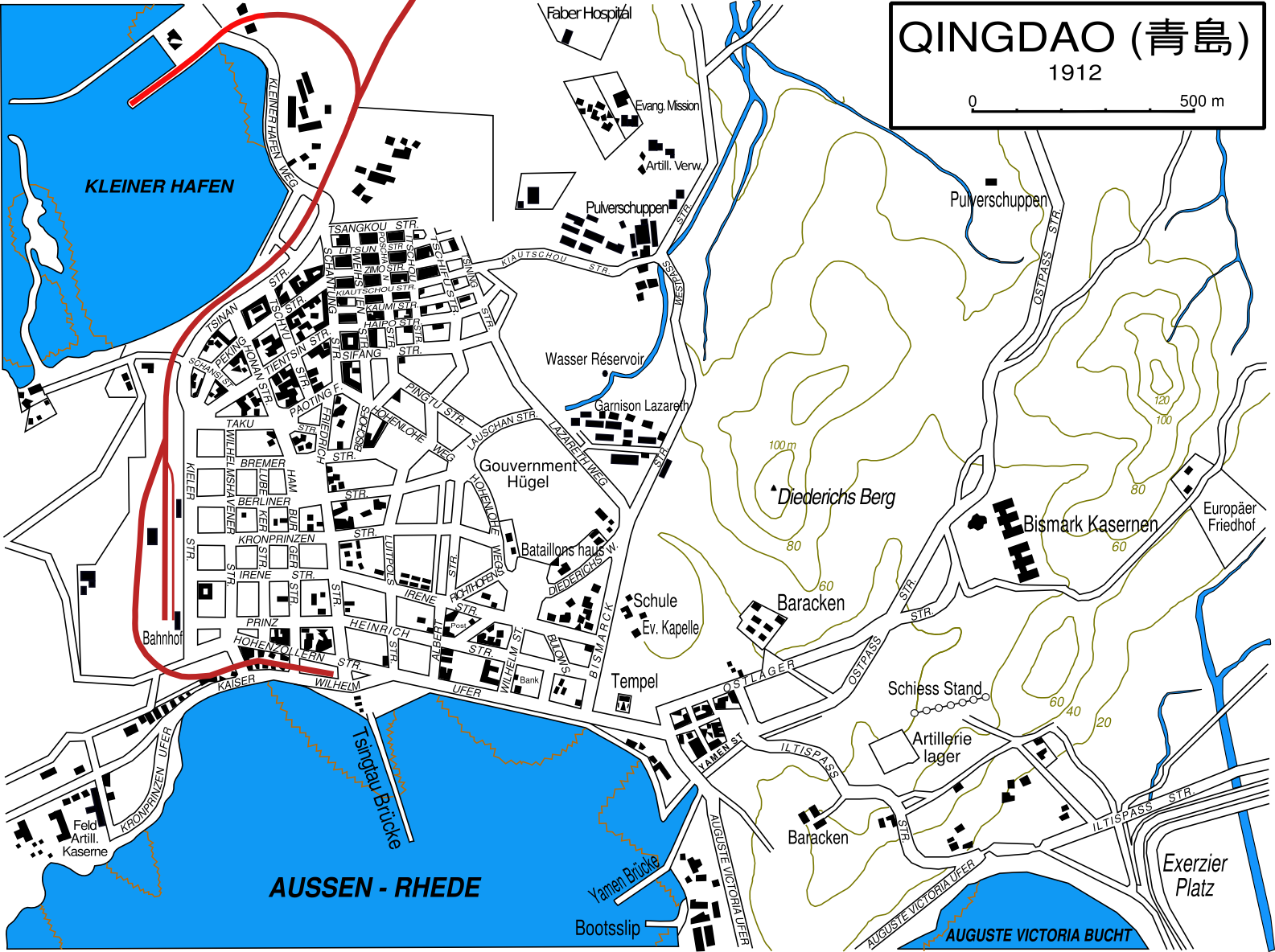 Map of central Qingdao published in 1912. The main harbour is to the north.